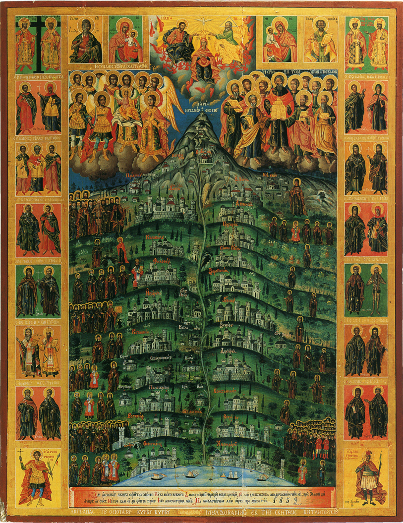 Saints of Mount Athos Icon in Romanian Skete by Genadiy Monah